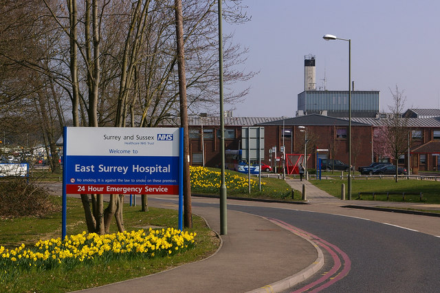 Entrance to East Surrey Hospital. Built in the late 1980s/early 1990s to replace the former Redhill General Hospital (see 1084967).